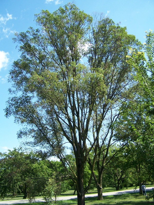 Siberian Elm Ulmus pumila. Morton Arboretum accession 325-70-4.